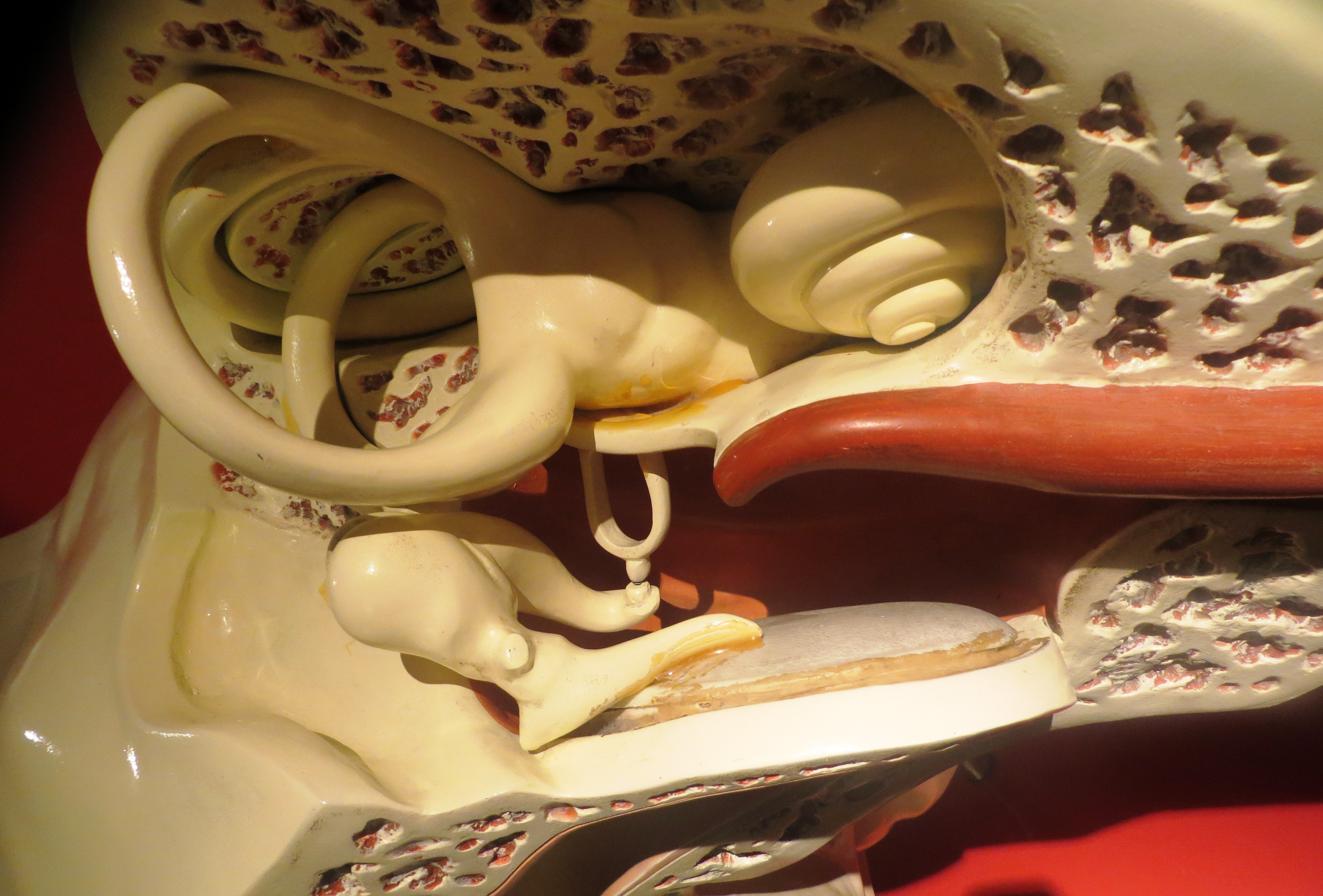 Model of the huam ear in the Technical Museum, in Oslo, Norway